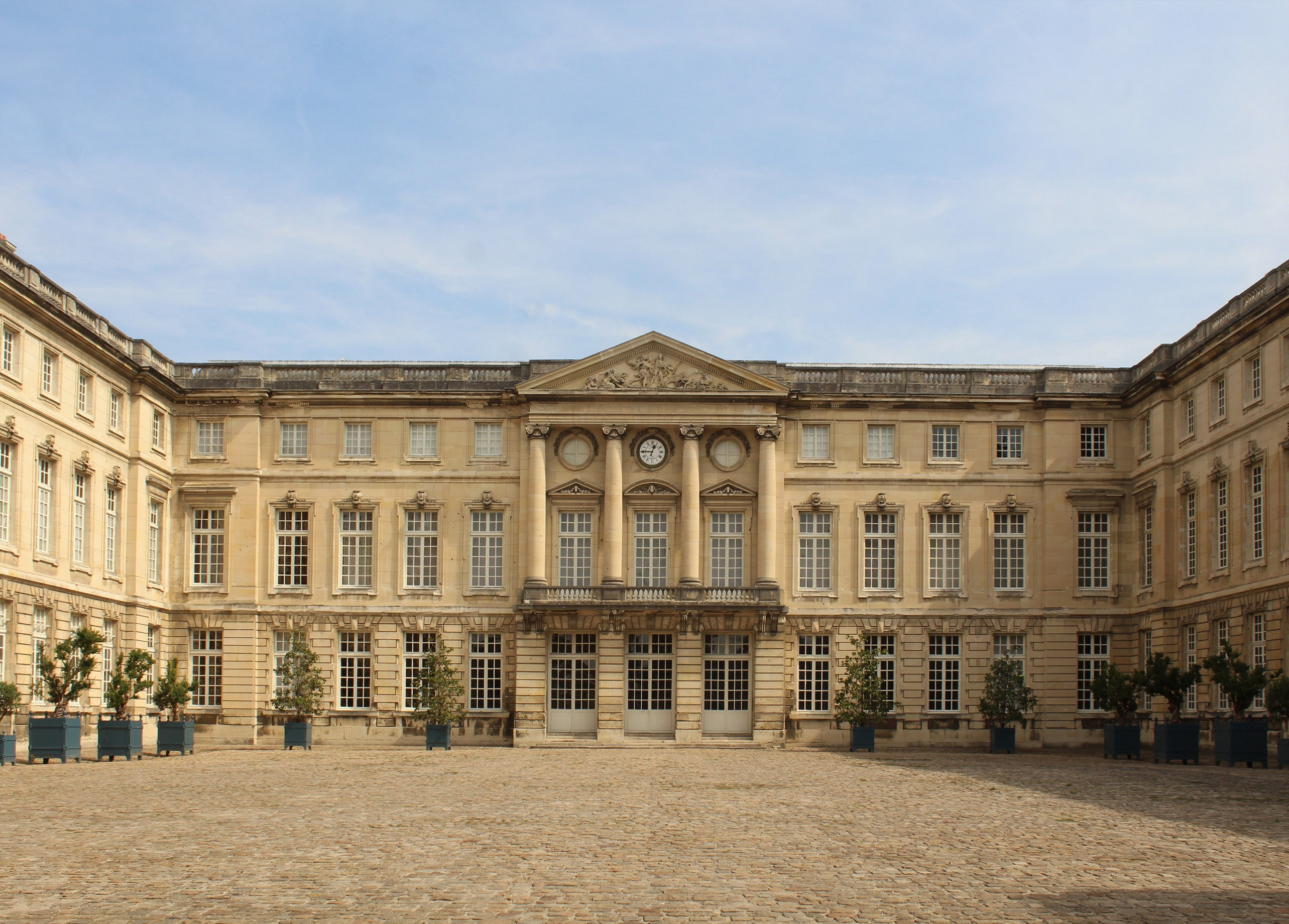 Compiègne, the château